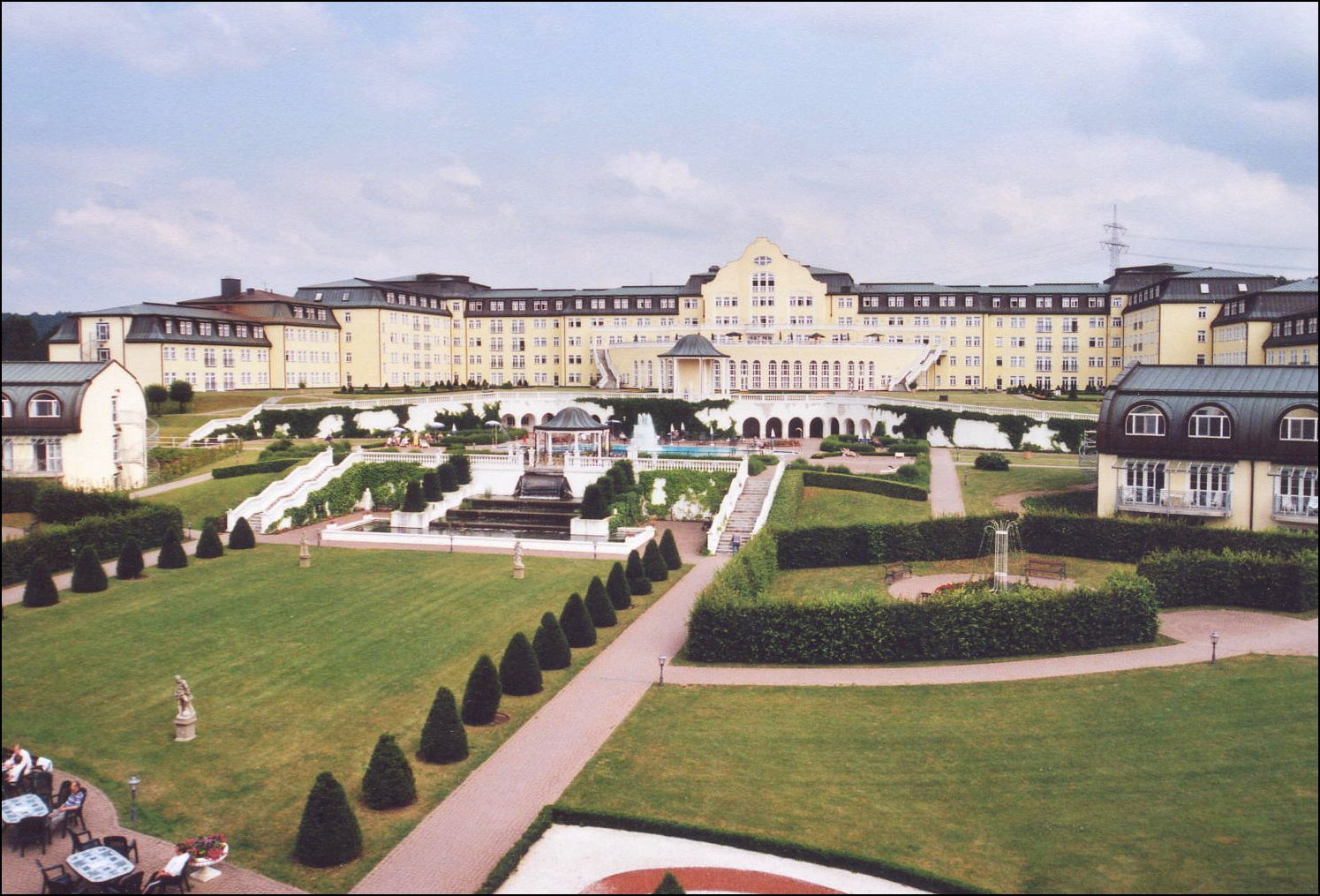 The Bavaria-clinic in Kreischa.